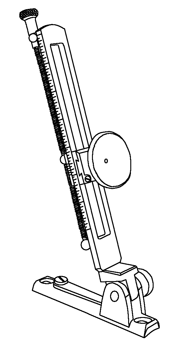 Line drawing of Montana Arms long range tang sight; the picture is a tracing of this photo